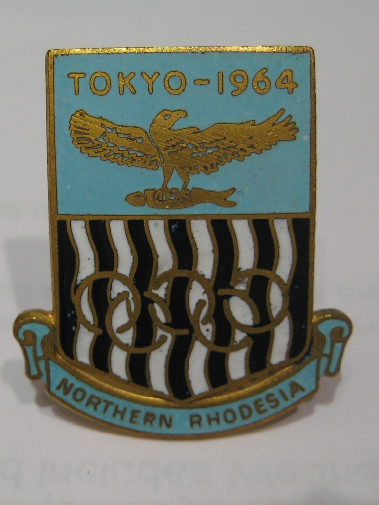 Lapel badge of the 1964 National Olympic Team of Northern Rhodesia. Northern Rhodesia became Zambia on 25th October 1964, the day of the closing ceremony of the Tokyo Olympic Games. Zambia thereby became the first country ever to change its name and flag between the opening and closing ceremonies of the Games.